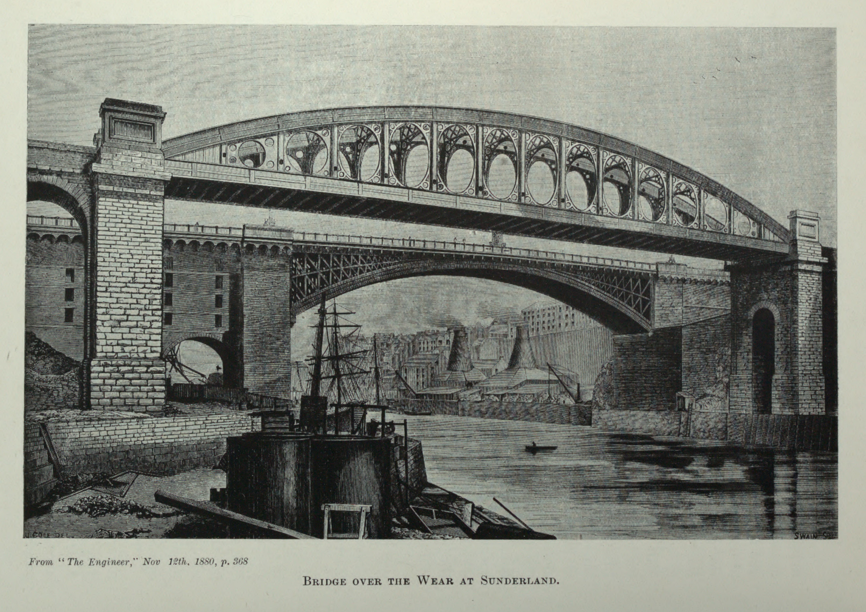 Image from Tomlinson;s "The North Eastern Railway" Image filename closely matches description in work. For a list of plates see page ix in book , eg - (or use index) The images are near to the relavent text in the work